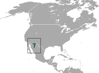 Arizona Shrew (Sorex arizonae) range